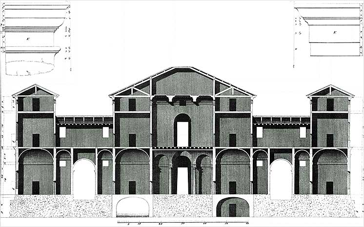 Villa Pisani in Montagnana by Andrea Palladio. Drawing by Ottavio Bertotti Scamozzi, 1778.